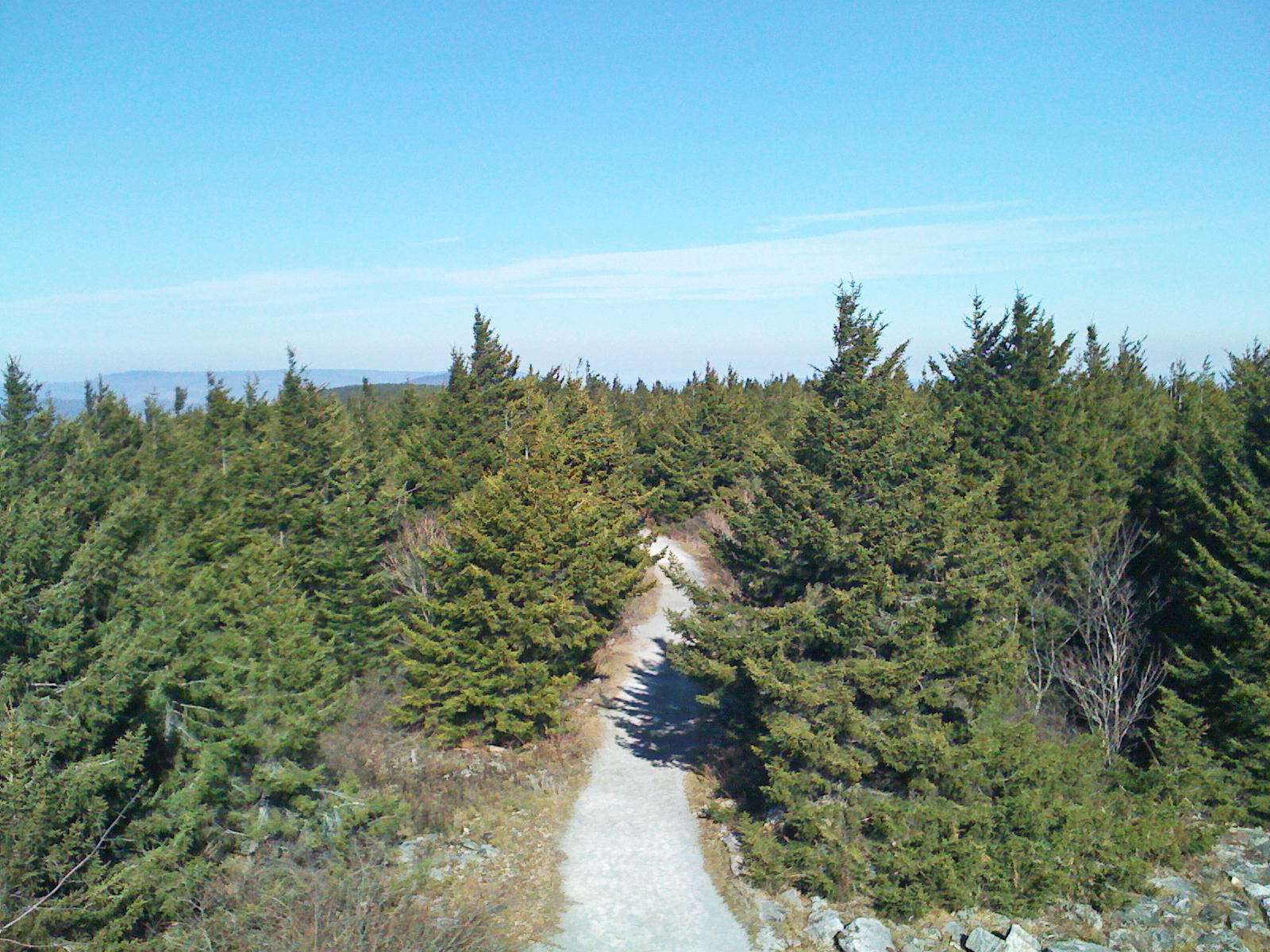 Looking north/ northeast from the top of the observation tower on Spruce Knob, over the Red Spruce forest. Spruce Knob, West Virginia.